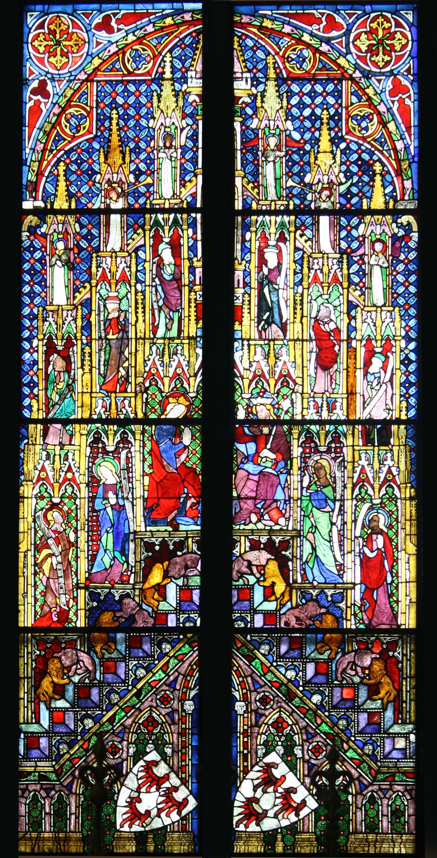 Cologne Cathedral. The Coronation of the Virgin window c.1330/40